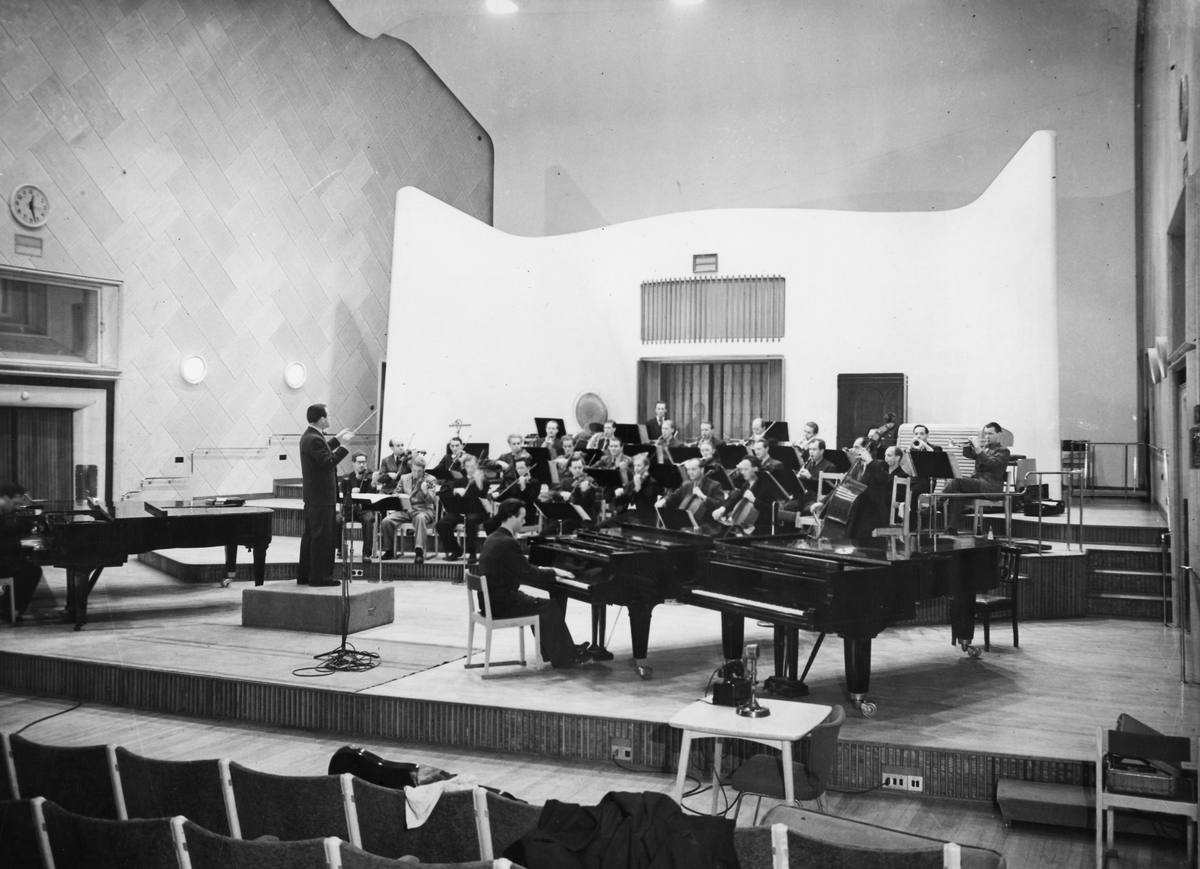 The Norwegian Radio Orchestra in the Store Studio in Oslo, Norway. Circa 1960.